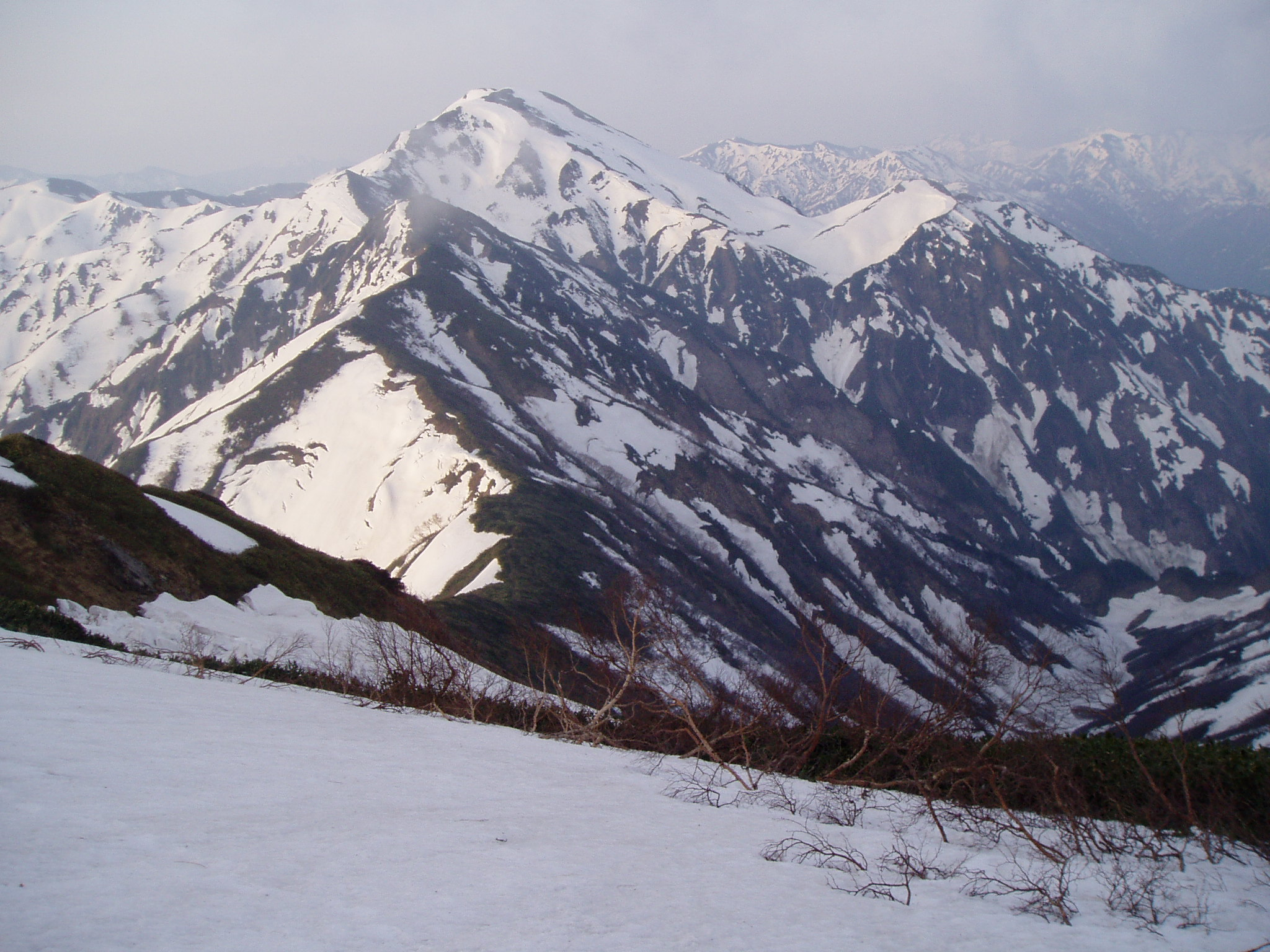 The Nouth side of Nakanodake as seen from Echigo-Komagatake